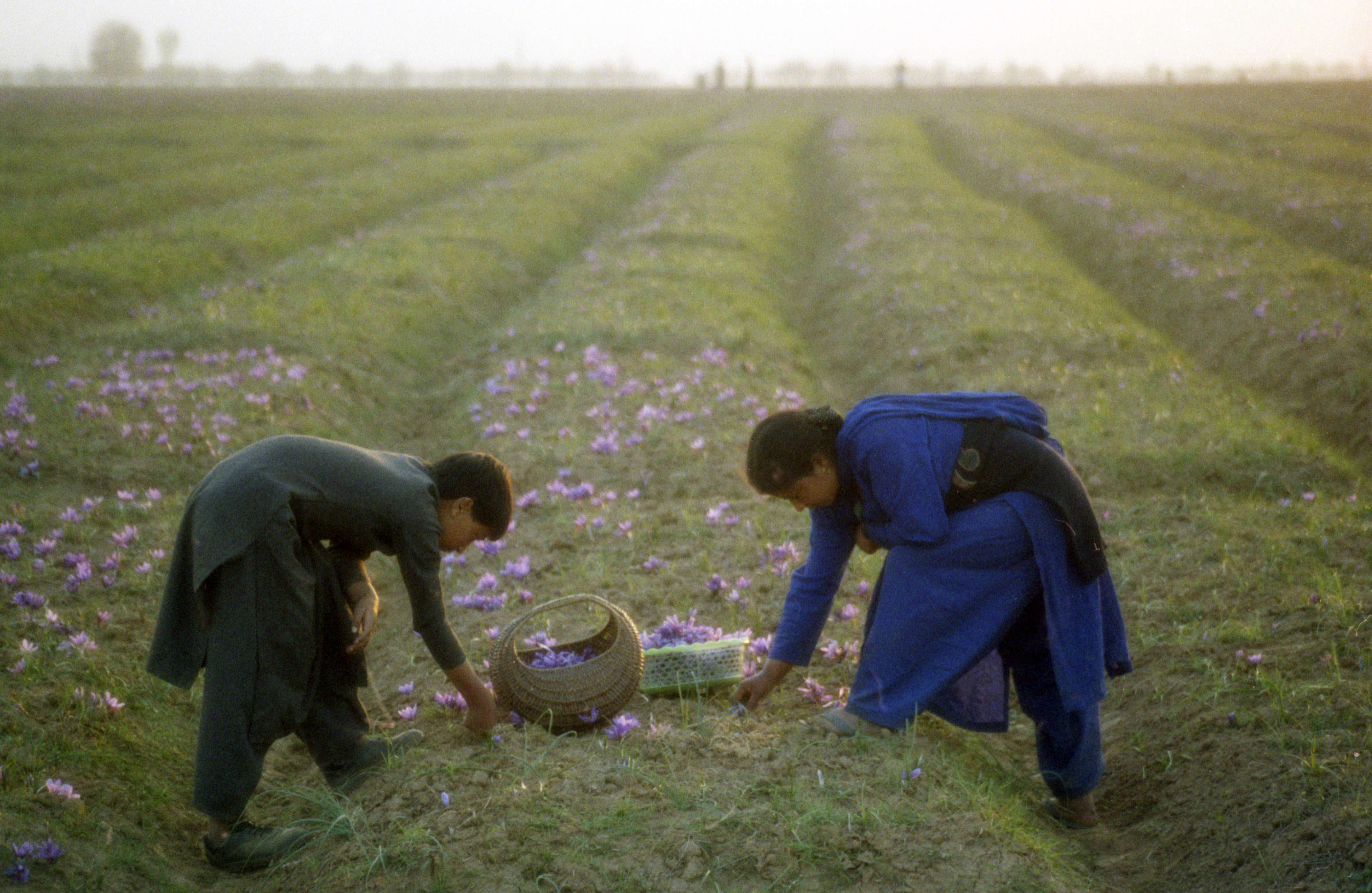 Saffron harvest in Kashmir, India